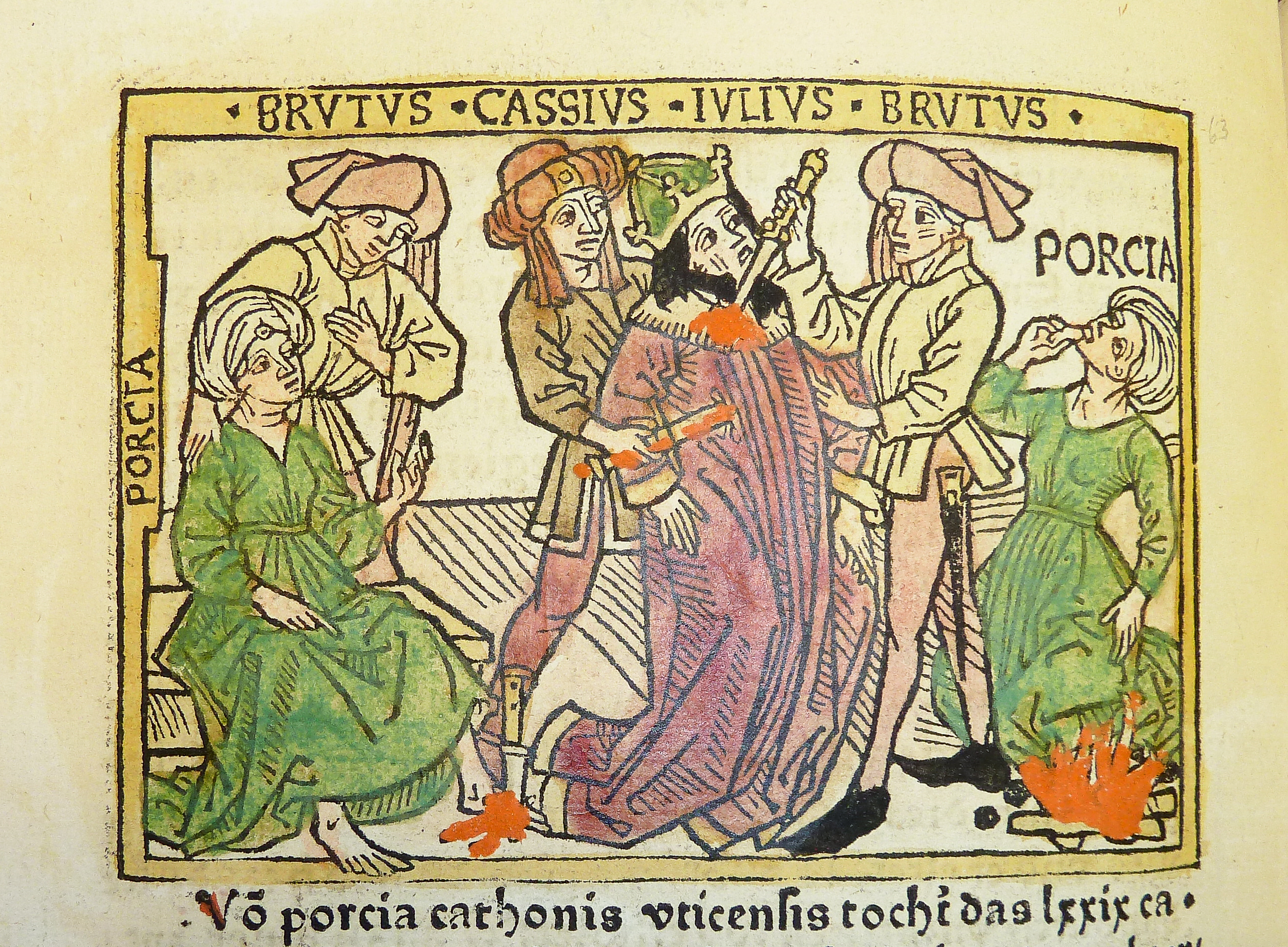 Woodcut illustration (leaf [m]8v, f. cviij) of Porcia Catonis counseling Marcus Junius Brutus, Julius Caesar's death at the hands of Brutus and Gaius Cassius Longinus, and Porcia's suicide, hand-colored in red, green, yellow and black, from an incunable German translation by Heinrich Steinhöwel of Giovanni Boccaccio's De mulieribus claris, printed by Johannes Zainer at Ulm ca. 1474 (cf. ISTC ib00720000). One of 76 woodcut illustrations (1 on leaf [e]8v dated 1473), each 80 x 110 mm., depicting scenes from the life of the women chronicled (for a full list of subjects, cf. W.L. Schreiber, Handbuch der Holz- und Metallschnitte des XV. Jahrhunderts (Nendeln: Kraus Reprints, 1969), no. 3506). "Pour la première moitie le nom se trouve inscrit à côte de la tête de chaque femme, pour le reste il es ajouté entre les deux réglettes. Il n'y en a que trois, qui n'ont qu'un seul trait carré."--Schreiber. Established form: Zainer, Johannes, ‡d d. 1541?. Established form: Brutus, Marcus Junius, ǂd 85?-42 B.C. Established form: Caesar, Julius. Established form: Cassius Longinus, Gaius, ǂd fl. 54-42 B.C. Penn Libraries call number: Inc B-720 All images from this book Penn Libraries catalog record